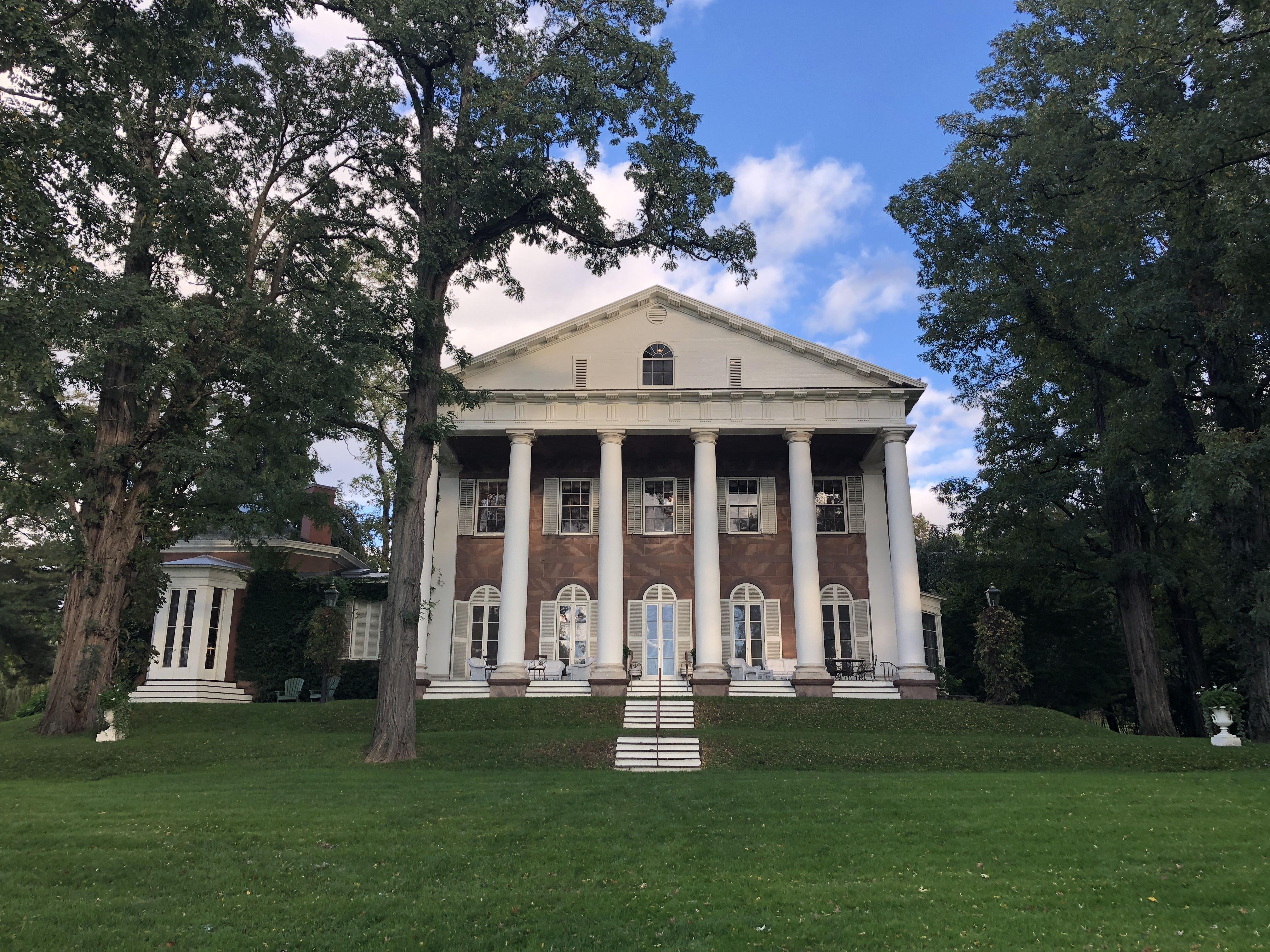 West Facade (Front) at Edgewater in Barrytown New York (October 2018)